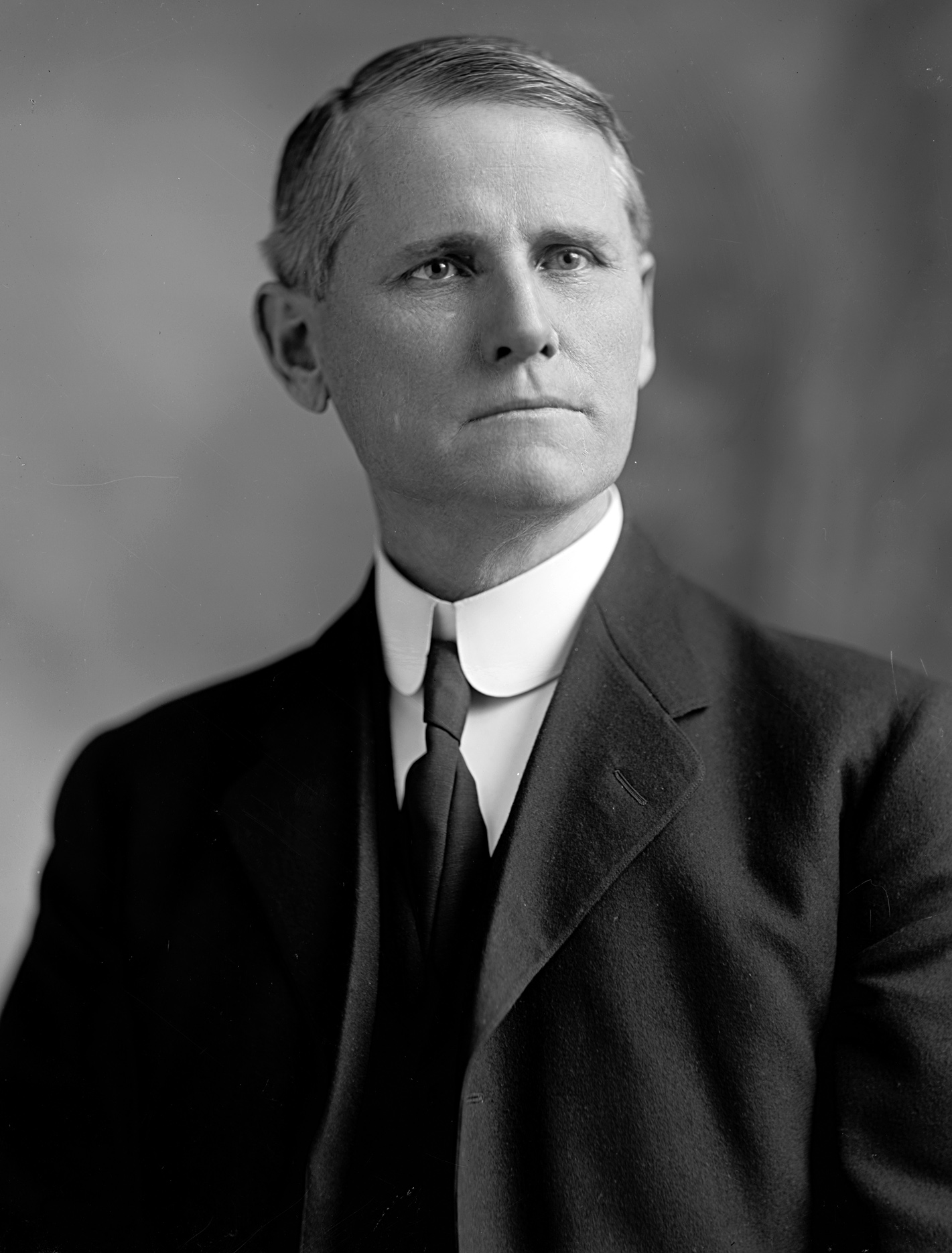 Francis H. Dodds, US Representative from Michigan